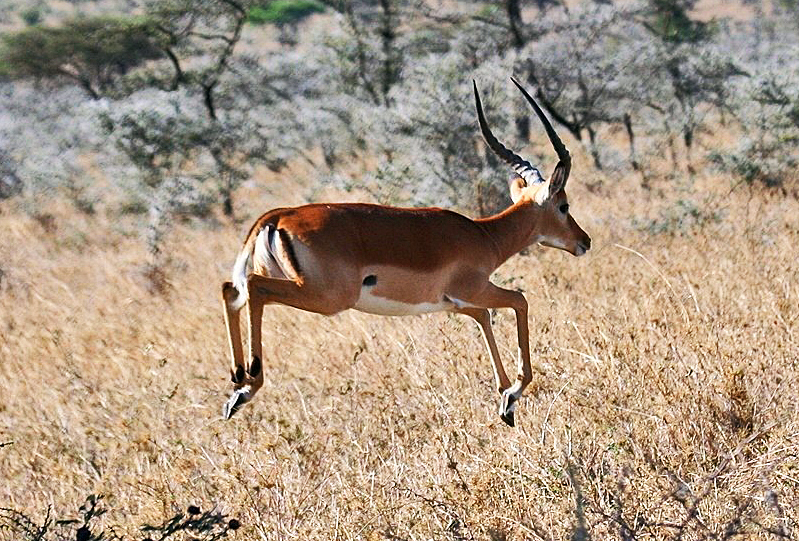 An Impala stotting (jumping with all four feet at the same time). Cropped from original image.